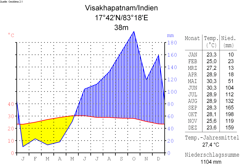 climate chart in the format by Walter and Lieth, metric, °Celsisus and millimeters, made with Geoklima 2.1